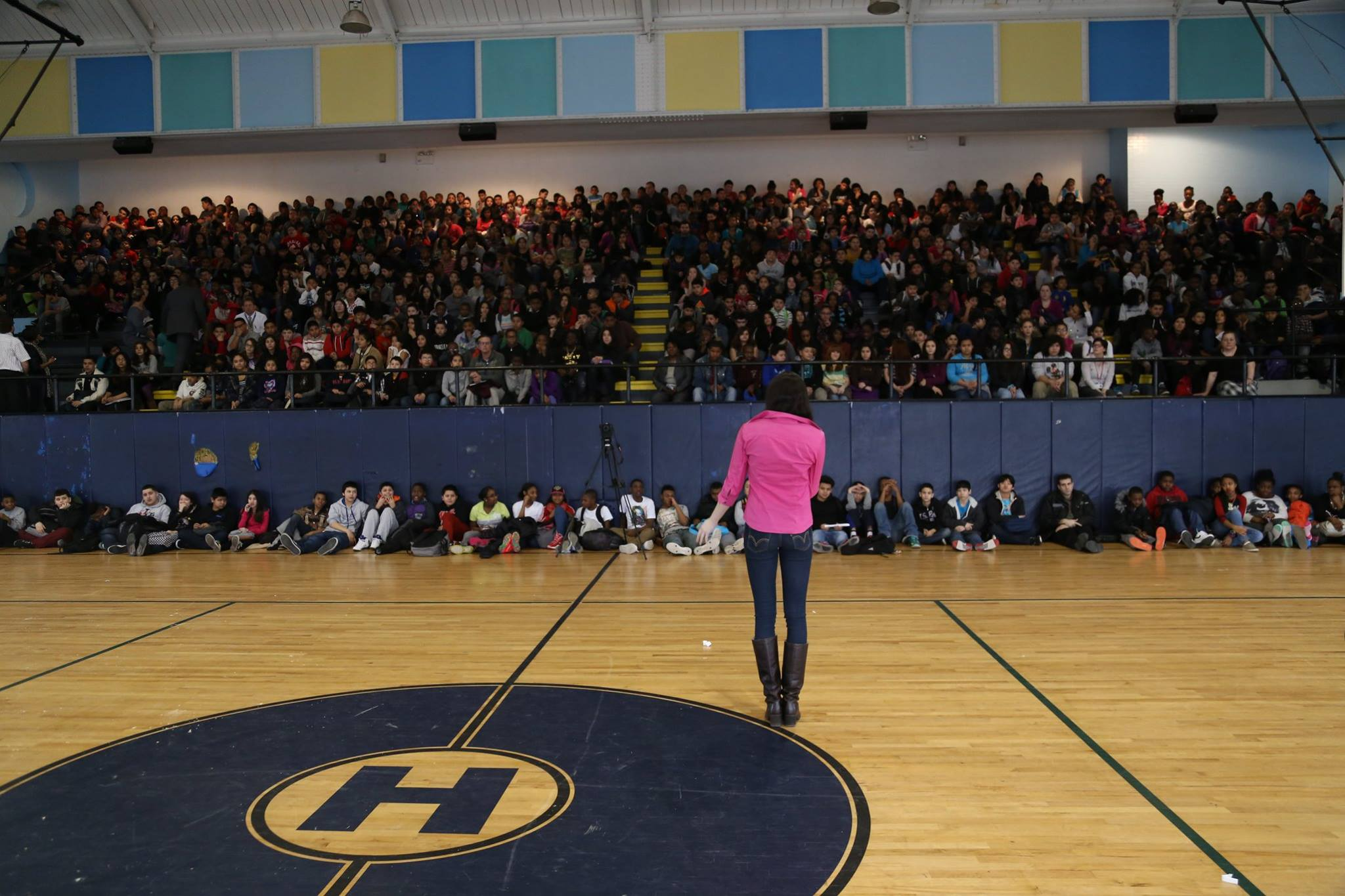 at antibullying engagement